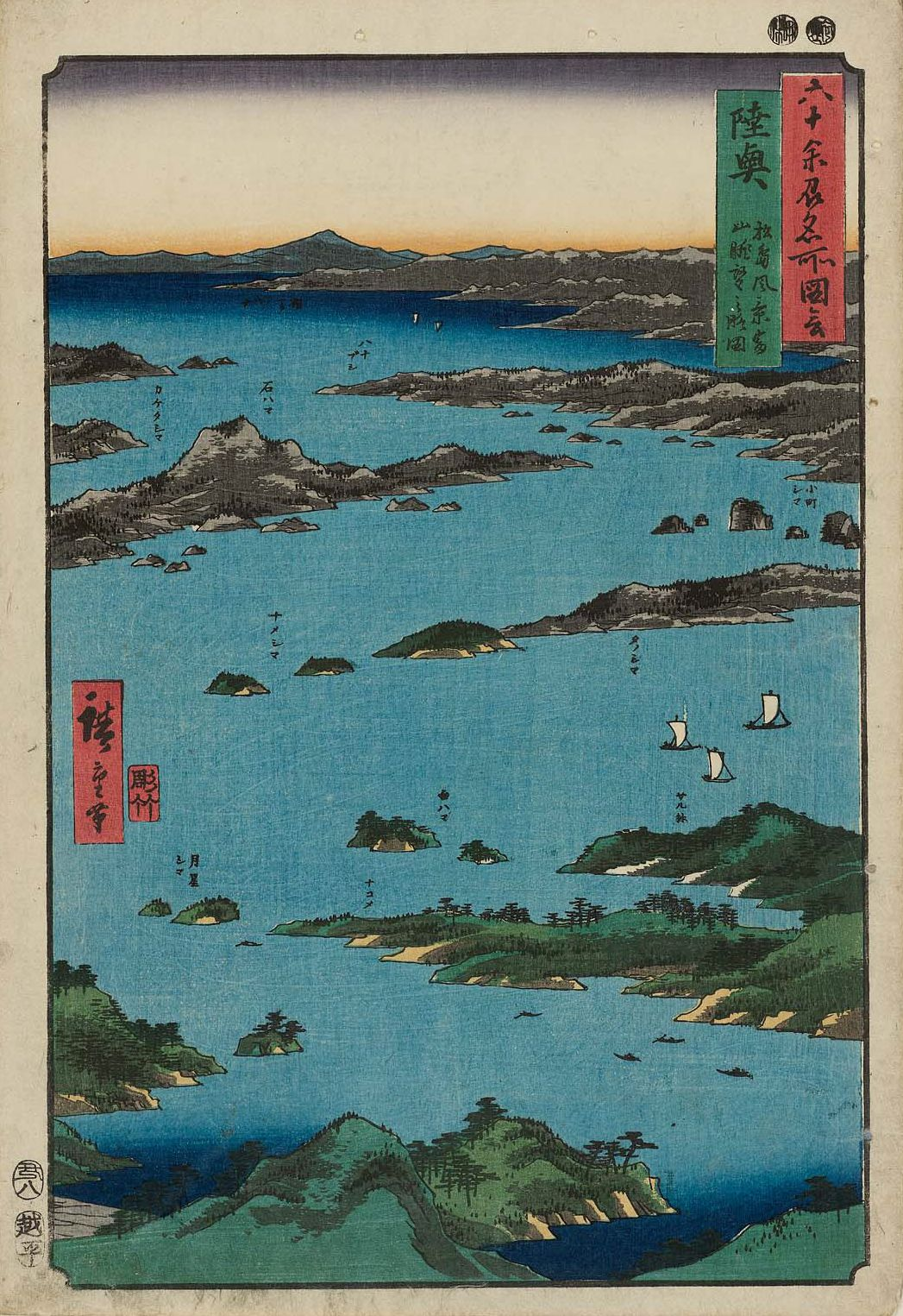 Part of the series Famous Places in the Sixty-odd Provinces, No. 28 (Tōsandō group)